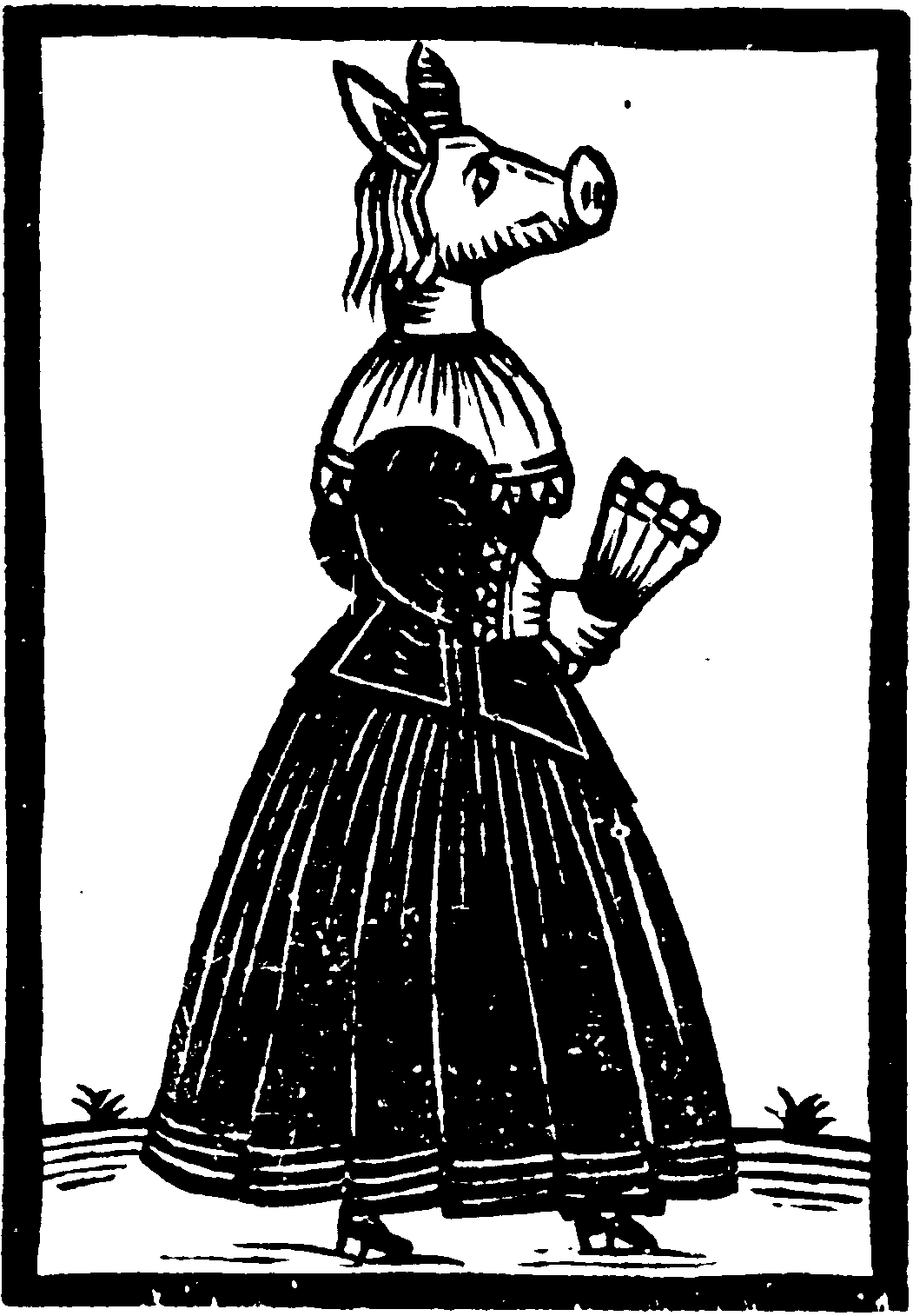 Frontispiece of A Monstrous shape, or a shapelesse monster, showing the purported pig-faced Dutch woman Tannakin Skinker